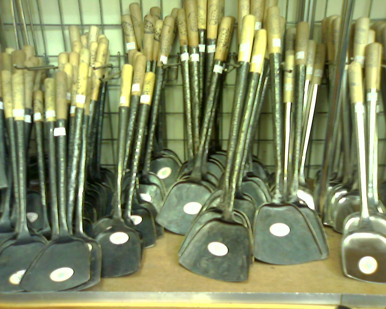 spatulas suitable for use in woks